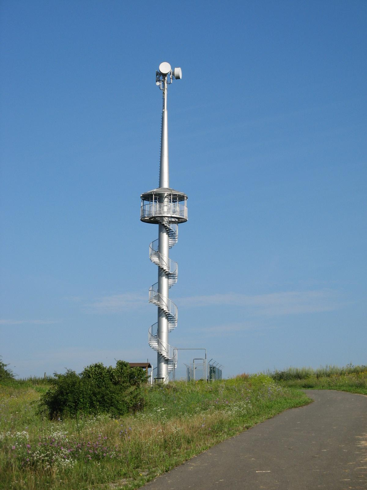 lookout tower